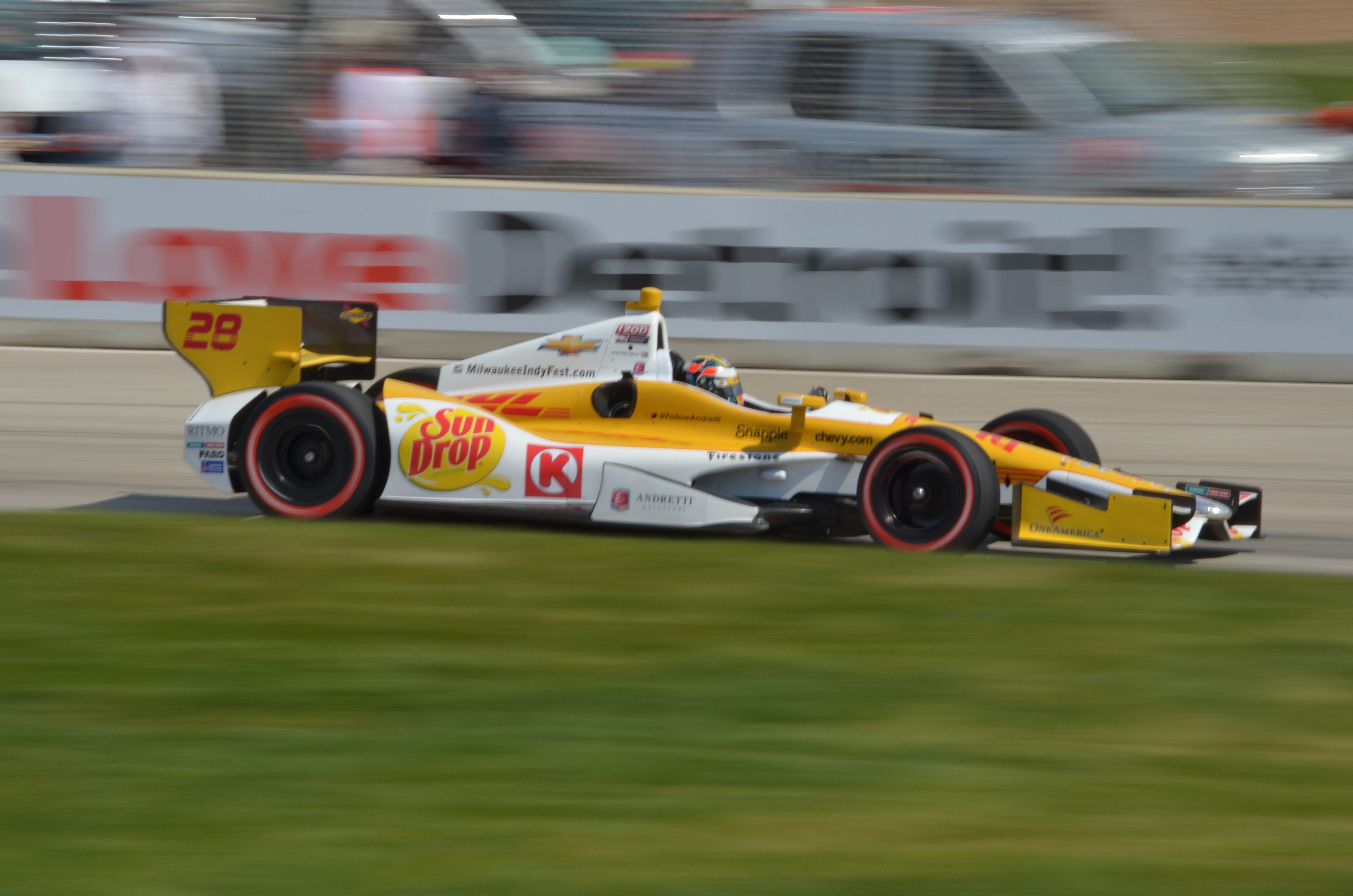 Ryan Hunter-Reay at the Chevrolet Detroit Belle Isle Grand Prix 2012